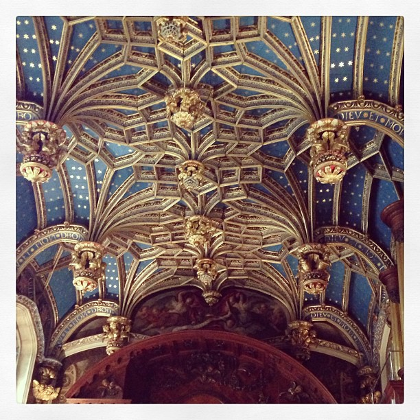 Ceiling of the Chapel Royal, Hampton Court Palace Top of the royal chapel at Hampton Court Palace. I might have snapped this illegal picture. It was too beautiful not to share!